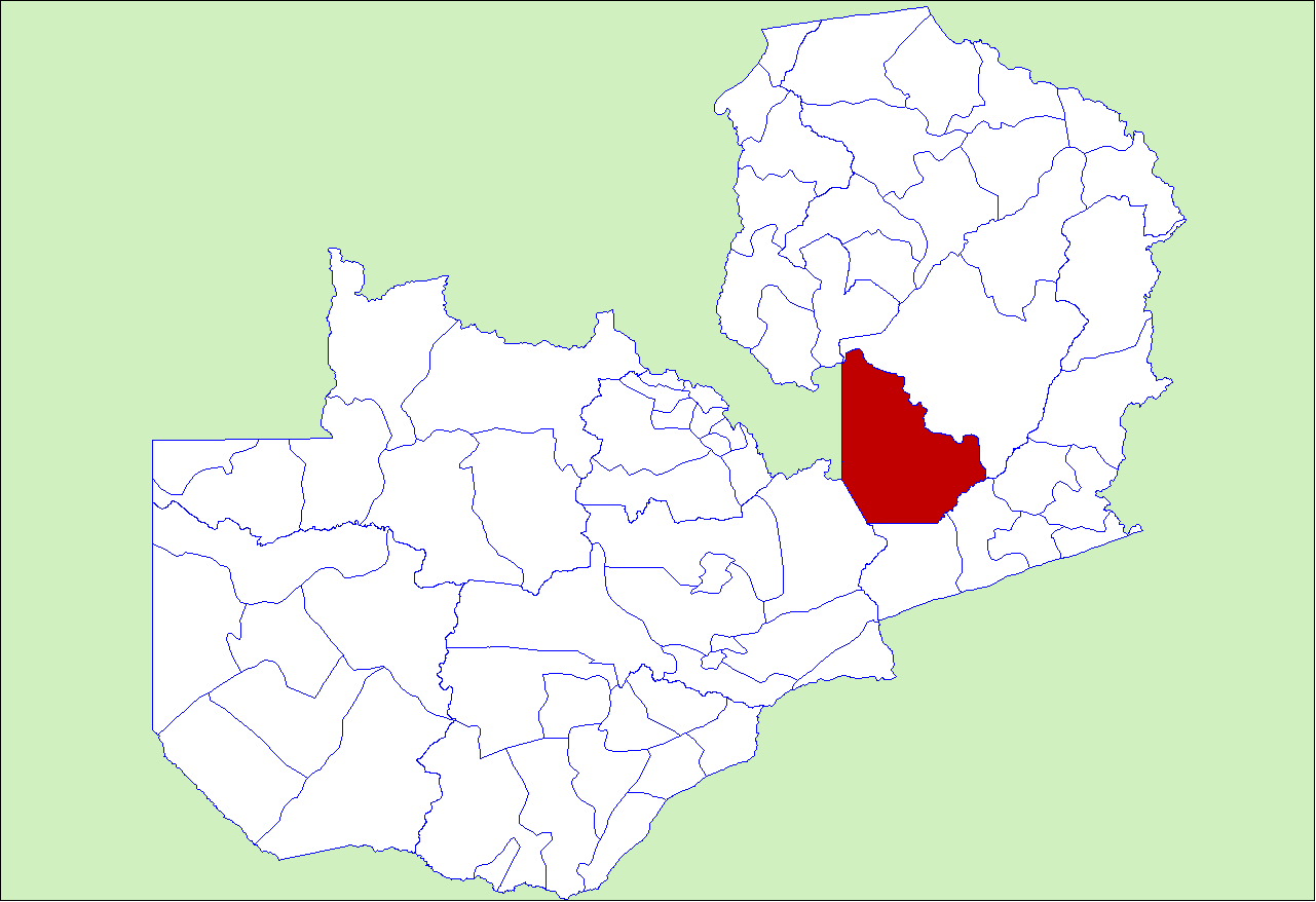 District locator in Zambia